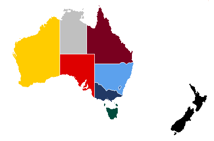 Coloured state locater map for Australia and New Zealand